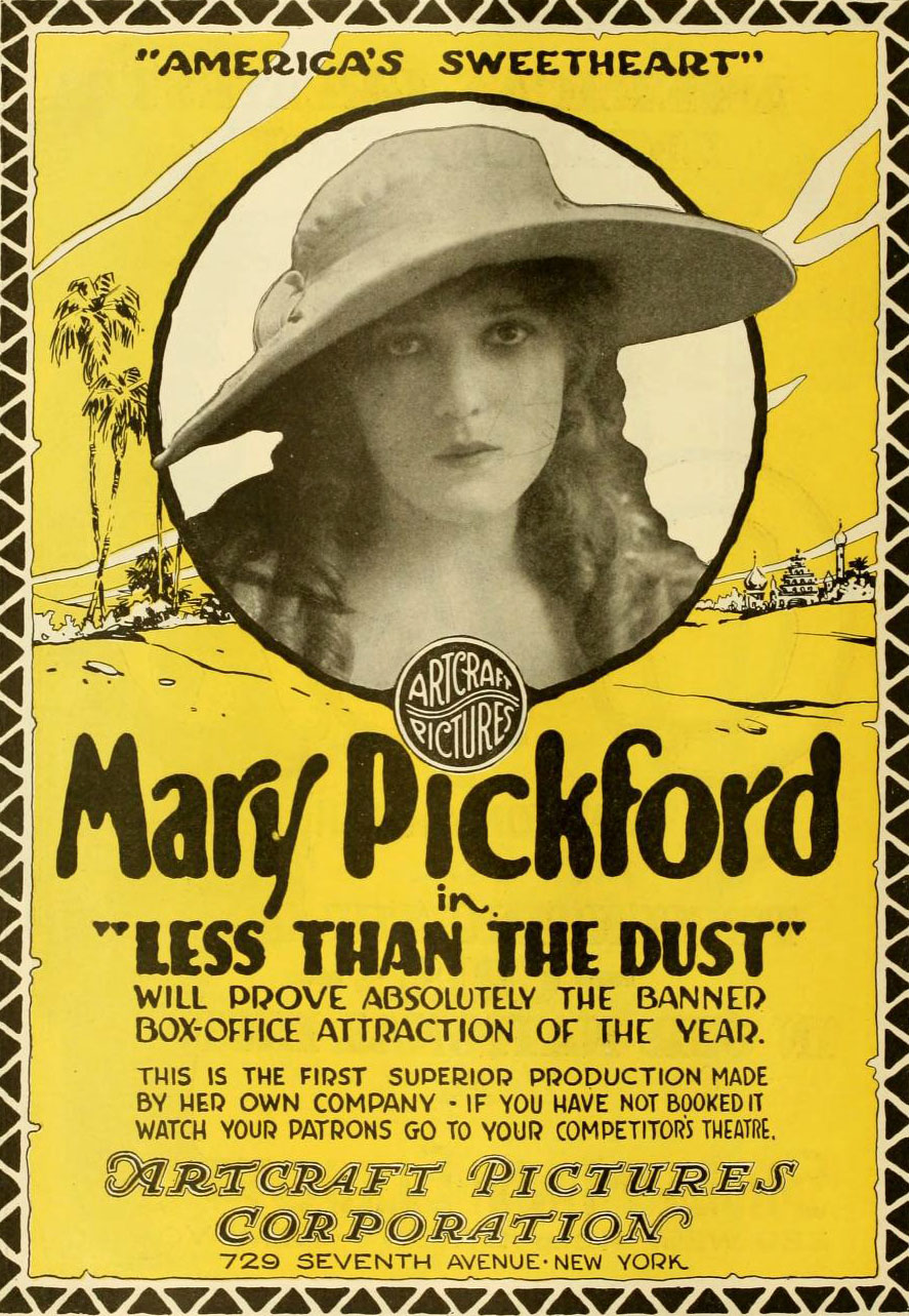 Advertisement in Moving Picture World for the American silent film Less Than the Dust (1916).